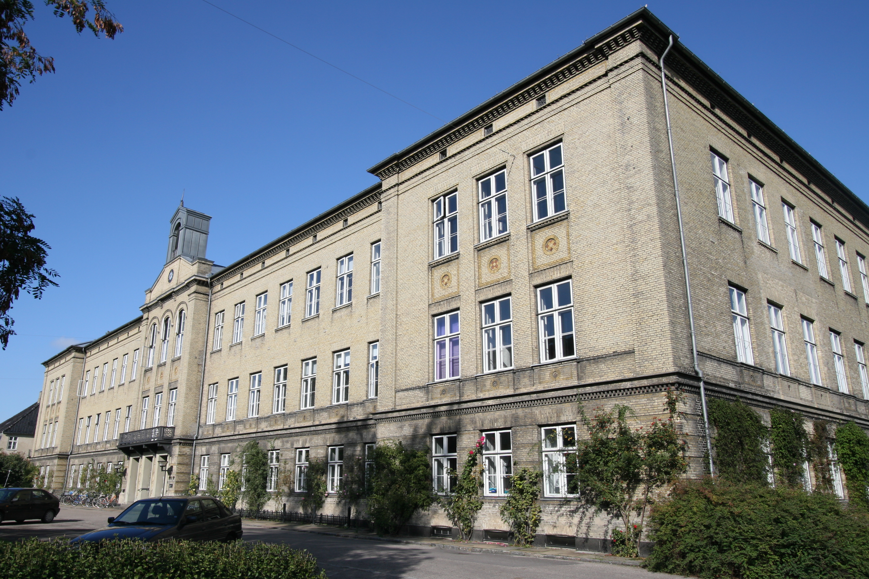 KVL - The Royal Veterinary and Agricultural University of Denmark. KVL - Rolighedsvej, Copenhagen